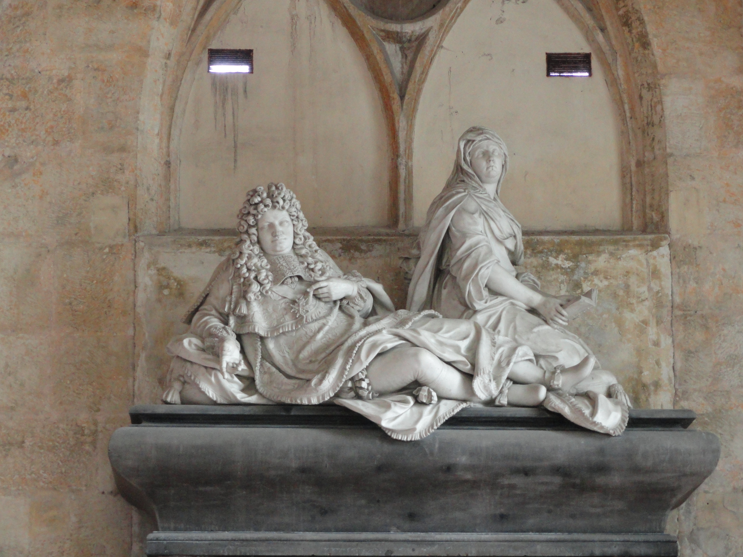 Grave of François Michel Le Tellier de Louvois, French secreteray of State for war of Louis XIV. The grave is located in the Old Hospital (or Hôtel-Dieu) of Tonnerre (Yonne -Burgundy-France)